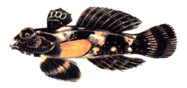 Ocellated dragonet (Synchiropus ocellatus). In: "The Fishes of Samoa", by David Starr Jordan and Alvin Seale. Bulletin of the United States Fish Commission, Vol. 25, 1905. P. 455, Plate LIII. Prepared plate from NOAA Photo Library: Ocellated dragonet.jpg